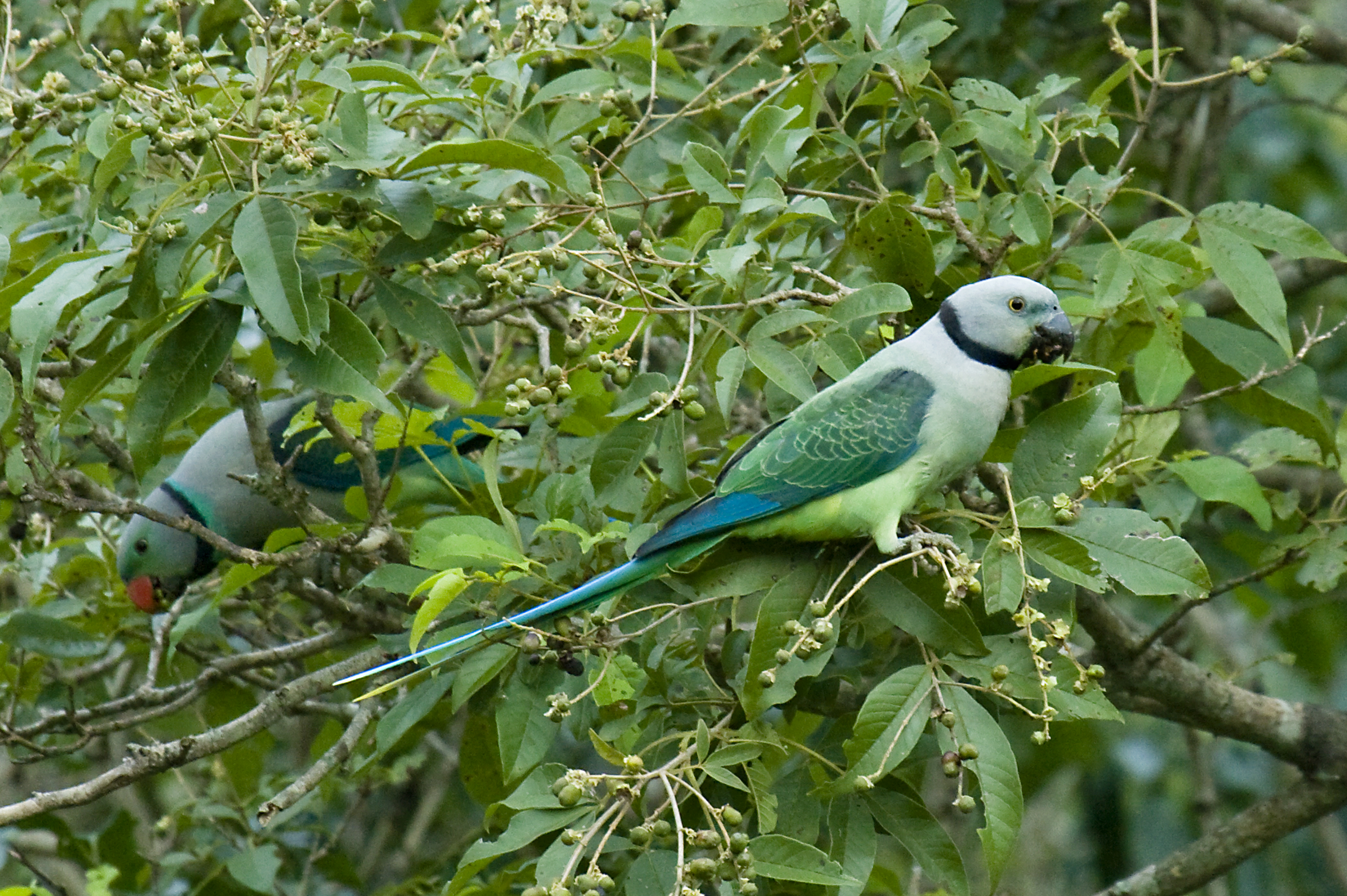 Blue-winged Parakeet or Malabar Parakeet (Psittacula columboides) pair.